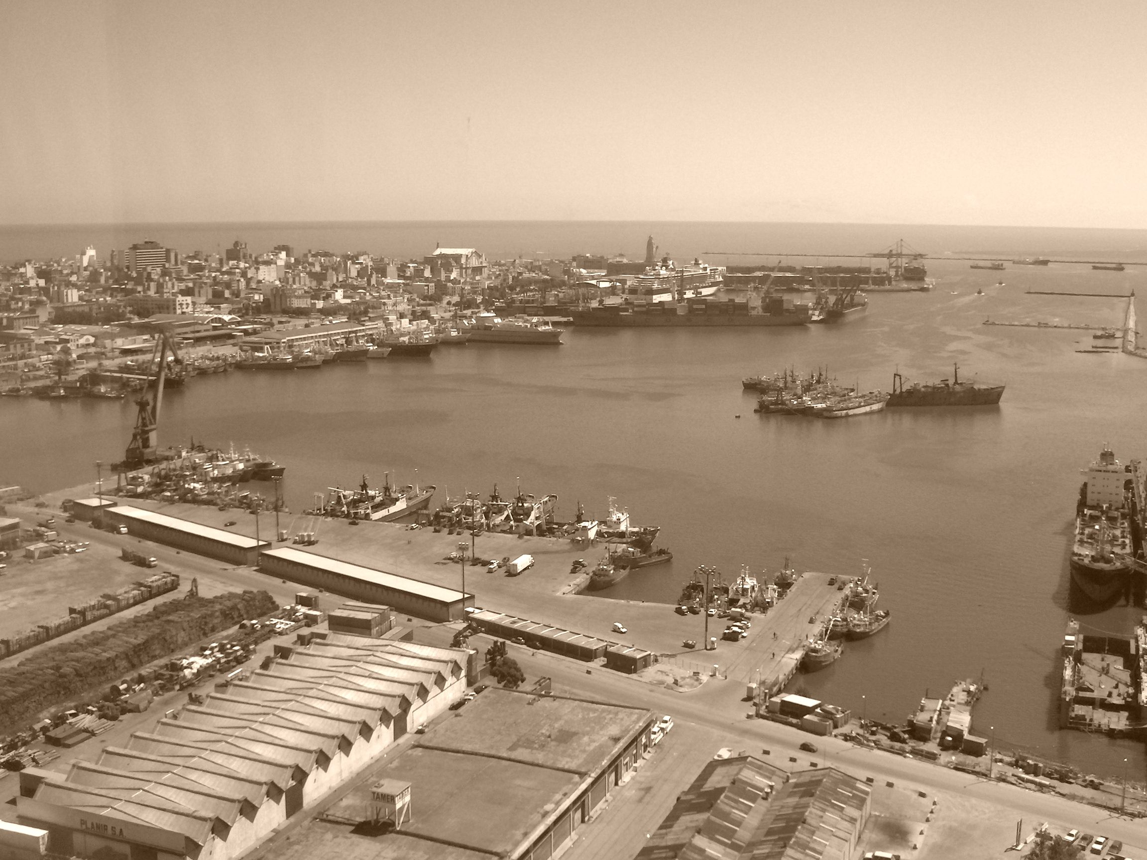 The twenty sixth floor of the telecommunication tower ANTEL is one of the highest points in Montevideo city, Uruguay. From there has been shot this picture which shows a part of the Montevideo trade port and its shipping terminal. A 70% Sepia colour map has been added to give an old effect to the picture.